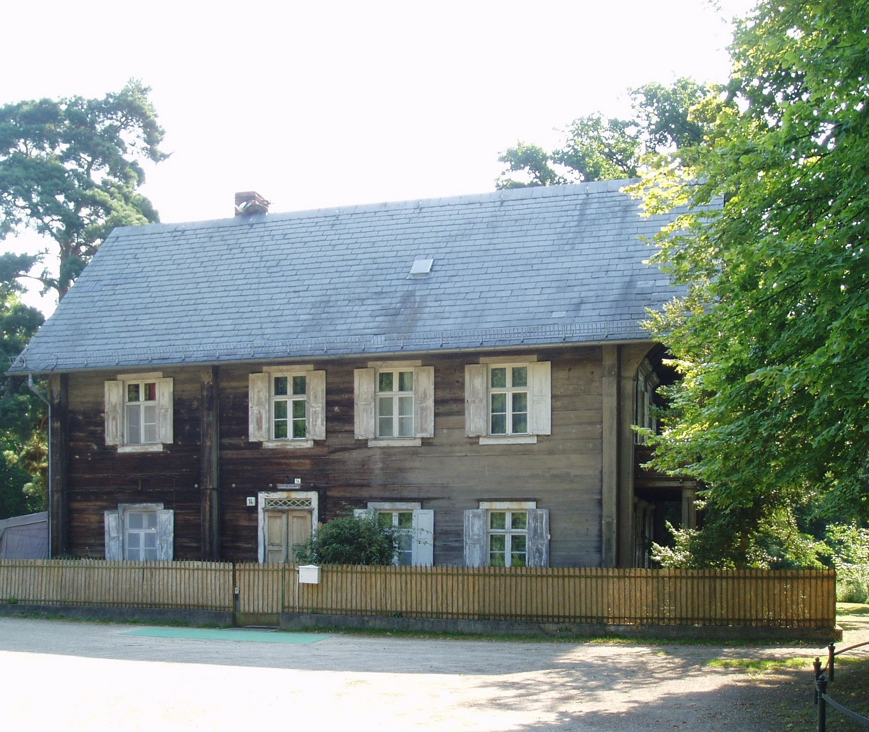 Alexandrowka No. 14. Residential building in an old Russian architectural style at the north side of the Alexander Nefsky Memorial Church, Potsdam, Germany